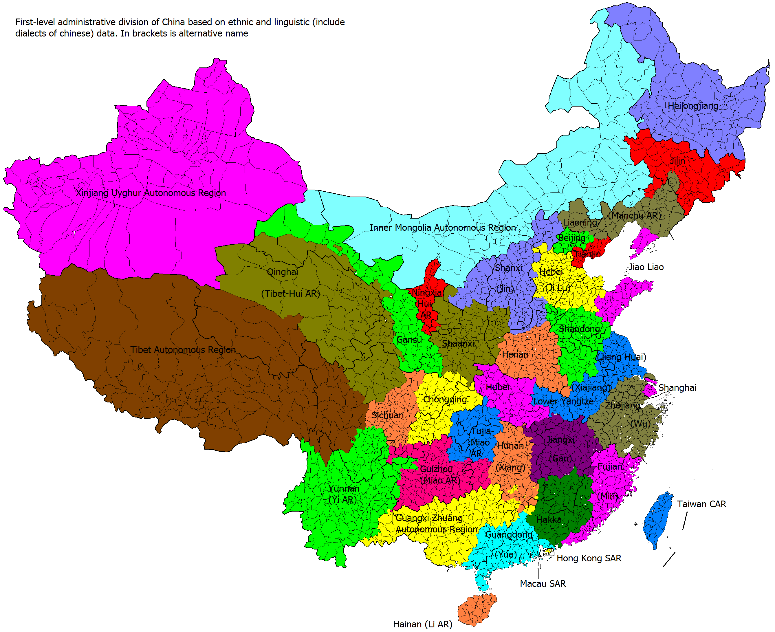 Comparison of administrative divisions of People's Republic of China, its dependencies, and Chinese Taipei (Taiwan) with actual ethno-linguistic distribution. Colors show how administrative divisions would look like, if they were based on ethno-linguistic distribution; thicker black borders show actual administrative division.